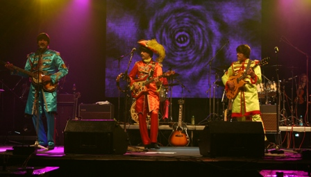 The Backwards performing "Sgt. Pepper" era (from left: Miroslav Dzunko aka McCartney, Frantisek Suchansky aka Harrison, Dalibor Stroncer aka Lennon); event "Days of Kosice city" 7th May 2010